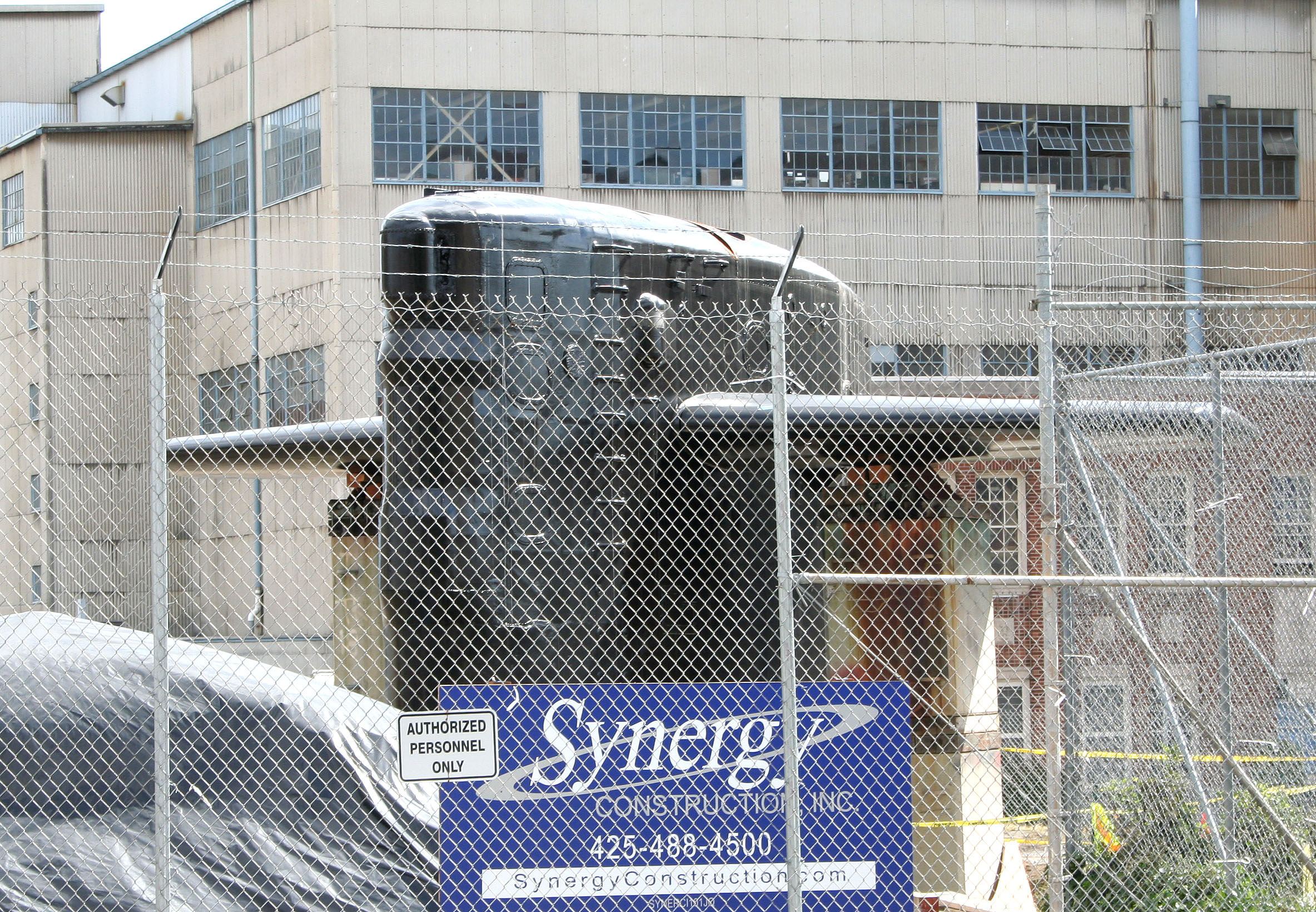 USS Parche's sail in downtown Bremerton awaiting opening of a waterfront park.